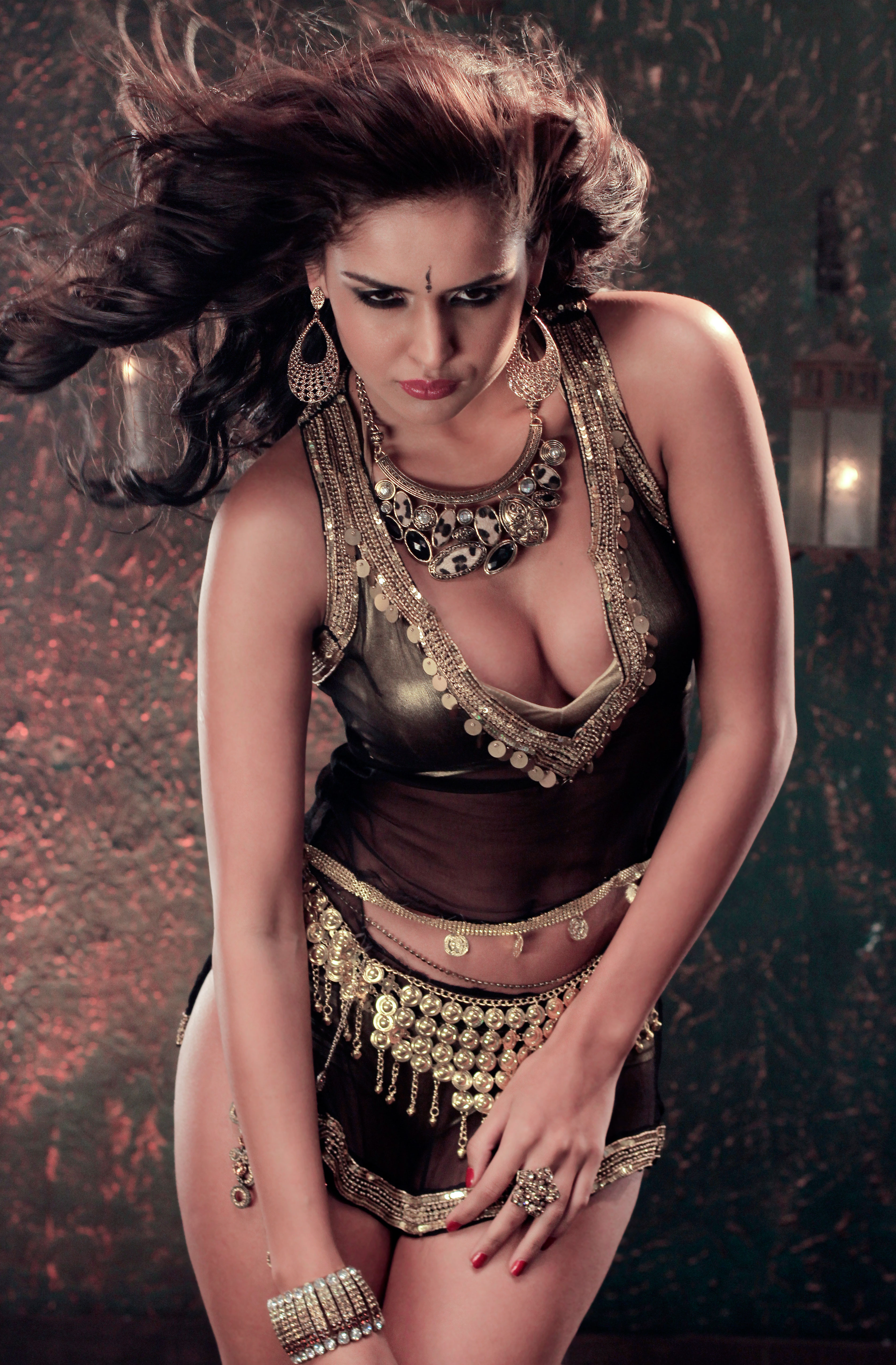 Natalia kour